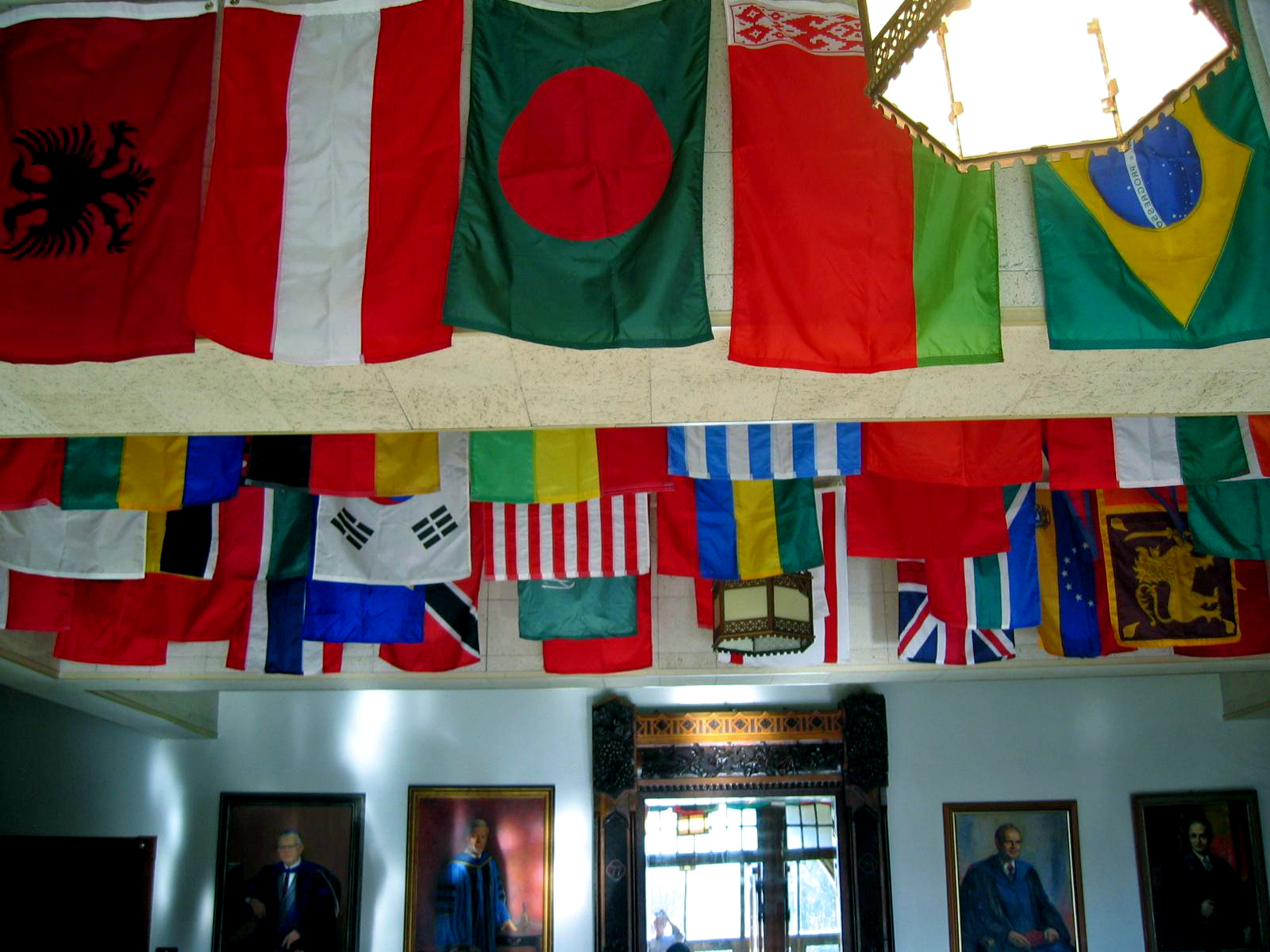 University Hall Flags Ohio Wesleyan University in Delaware, Ohio. Photo shot by (Owupix), 2006-October-27 This is an updated version of Image:UniversityHallFlags.jpg